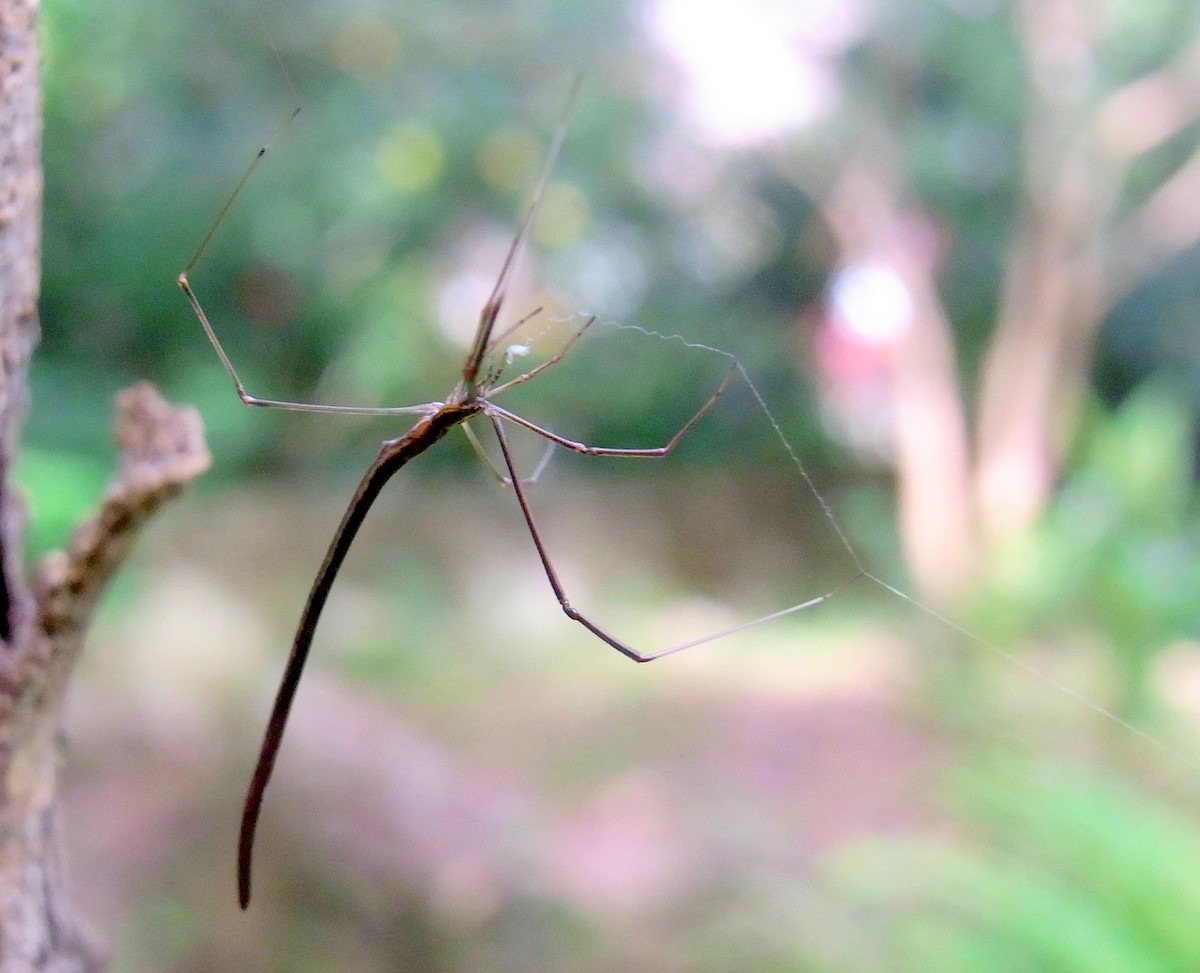 Whip Spider, Chatswood West, Argyrodes colubrinus